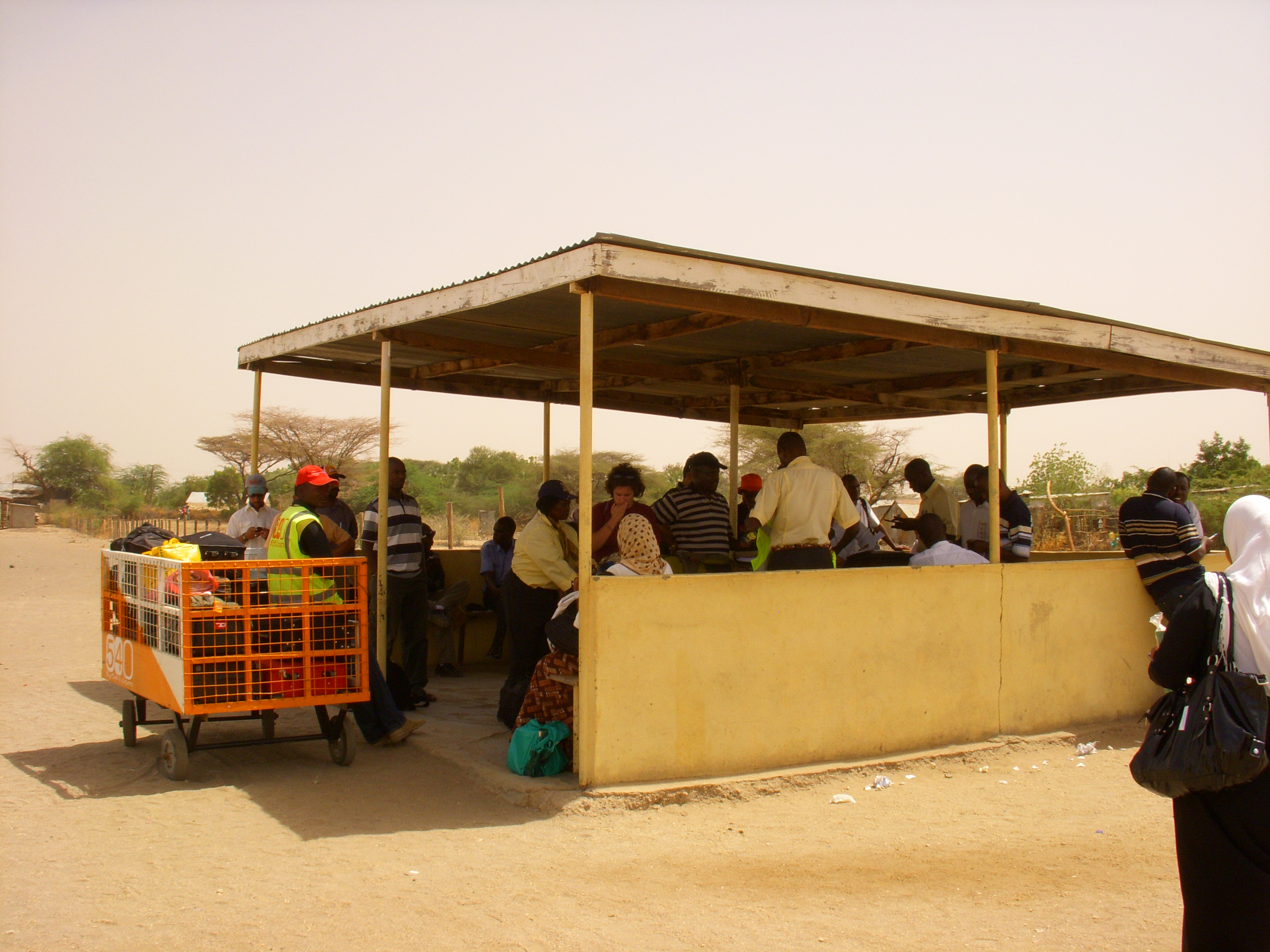 Lodwar Airport Terminal Building in Turkana County, Kenya.